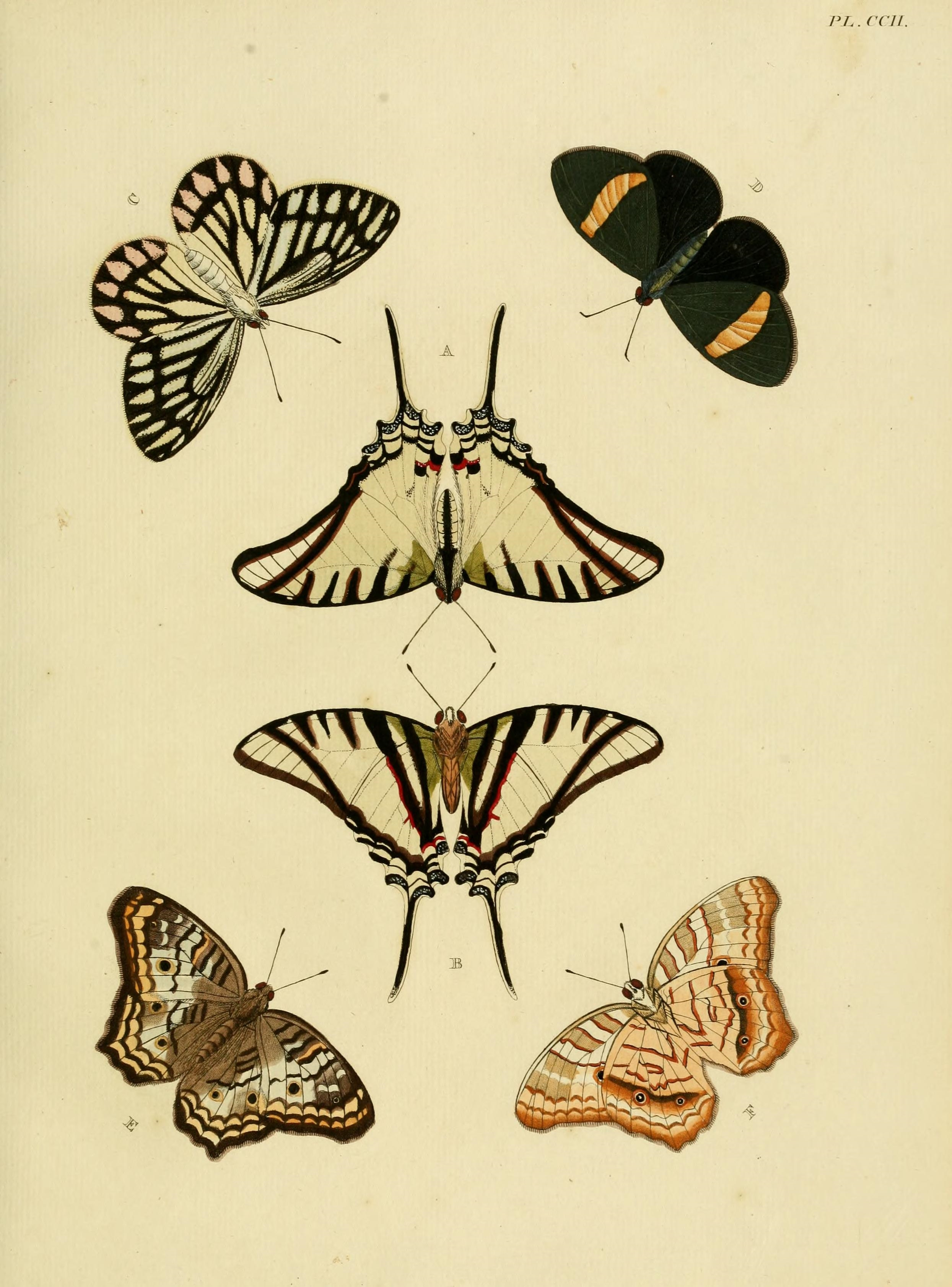 Plate CCII A, B: "(Papilio) Protesilaus" ( = Protesilaus protesilaus (Linnaeus, 1758)), see Funet. Photo at Neotropical Buttereflies. C: "(Papilio) Eucharis" ( = Delias eucharis (Drury, 1773)), see Funet. Female. Male on plate 201 C. D: "(Papilio) Pelasgus" ( = Castnius pelasgus (Cramer, [1779])), see Funet and Butterflies and Moths of the World, NHM. Photos at Hétérocères de Guyane Française. E: "(Papilio) Jatrophæ" ( = Anartia jatrophae (Linnaeus, 1763), see Funet In register spelled as "JATROPHA" (error).